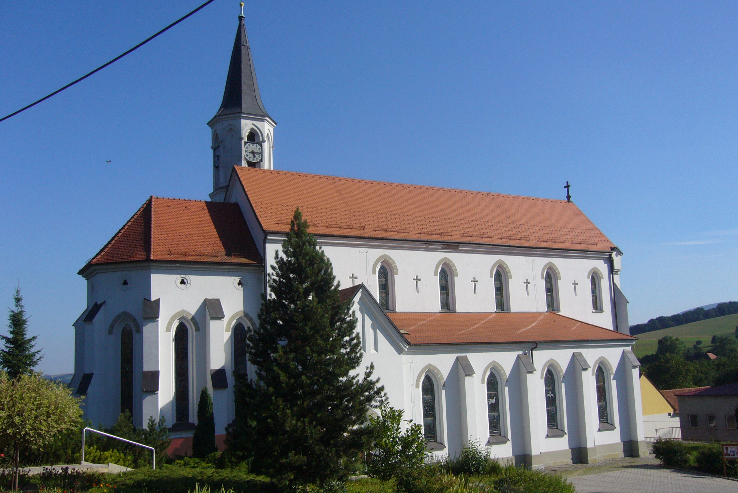 Saints Cyril and Methodius church in Březová, Uherské Hradiště District, Czech Republic